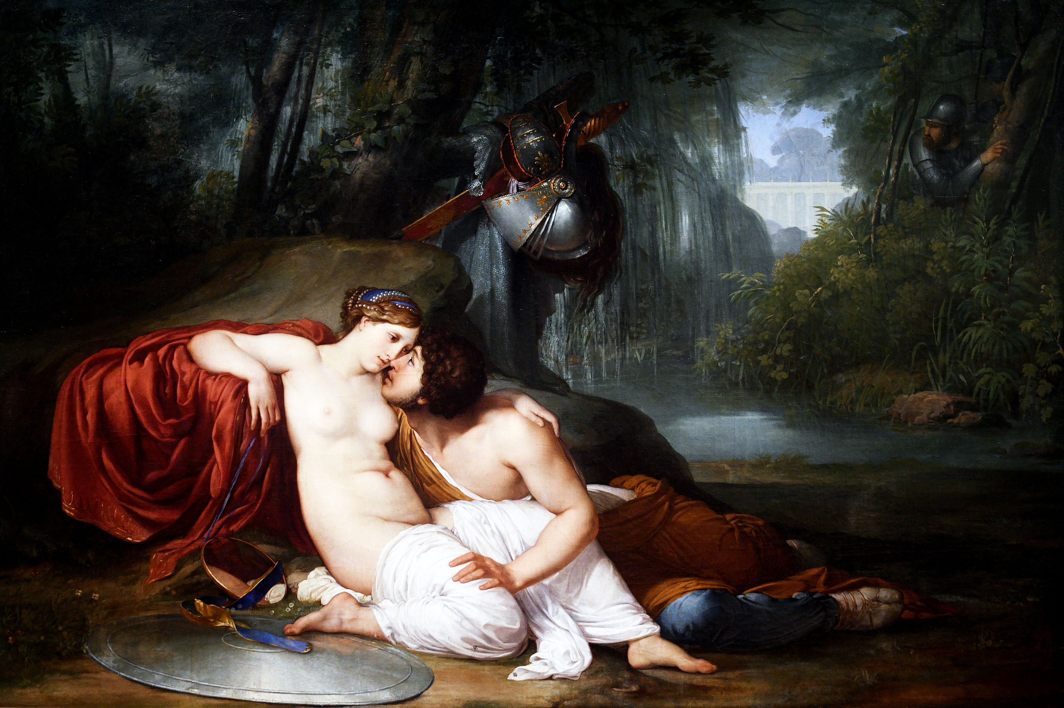 Rinaldo e Armida by Francesco Hayez